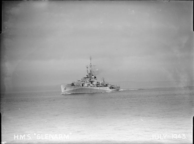 British-built River class frigate HMS Glenarm underway. Renamed HMS Strule (K258) on 1 Feb 1944. Transferred on 25 Sep 1944 to the Free French Navy as FFL Croix de Lorraine (K258).